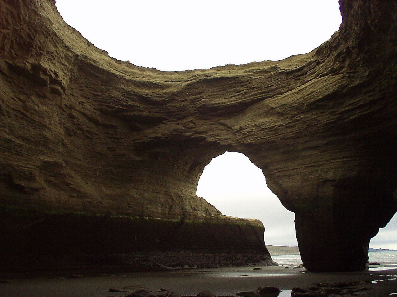 Monte Leon National Park, Santa Cruz, Argentina